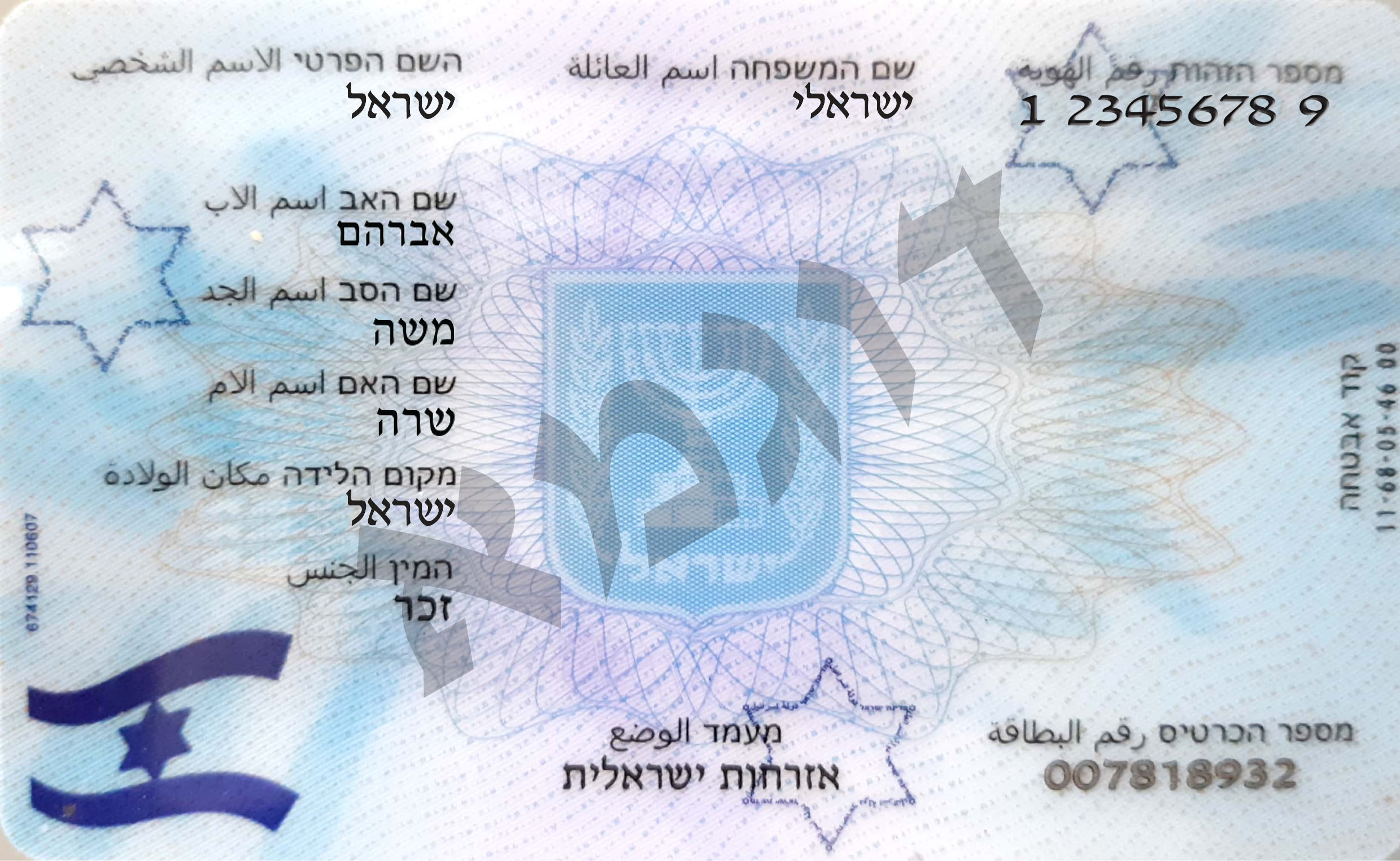 The Example of the Biometric Teudat Zehut, reverse side